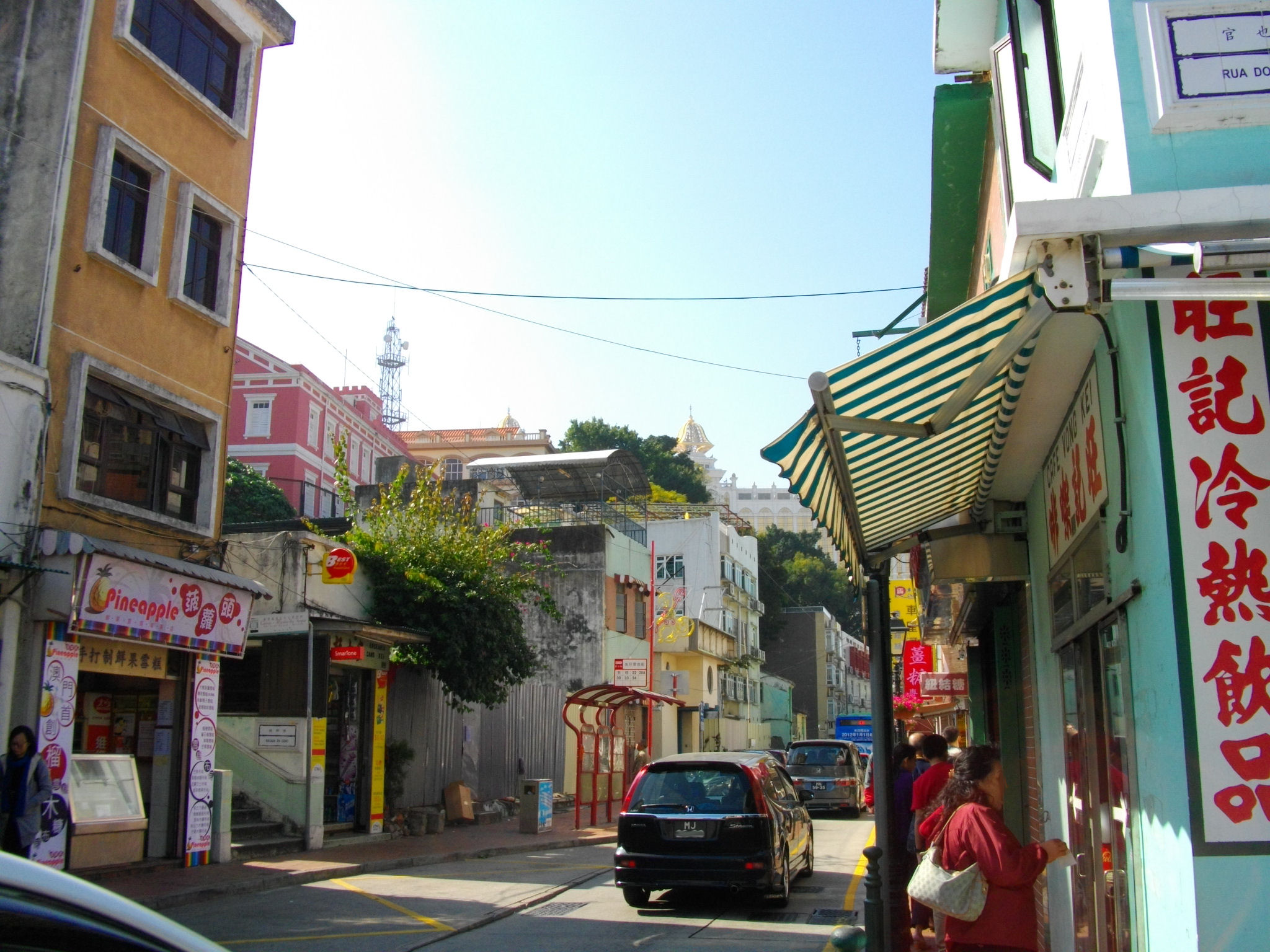 Rua Correia da Silva (Macau)